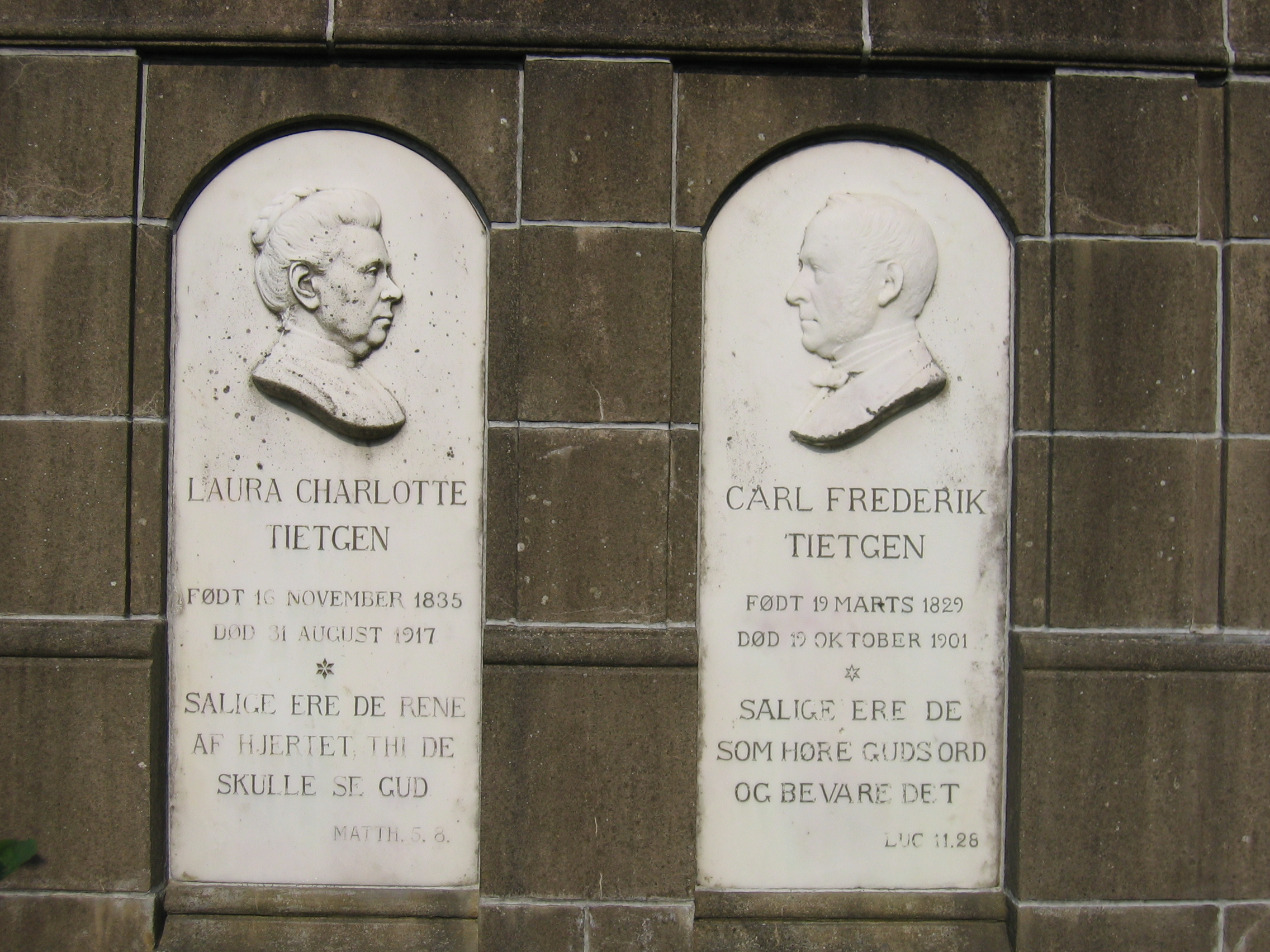 The burial place of Carl Frederik Tietgen, danish financier and industrialist at Lyngby cemetery in Kongens Lyngby, Denmark